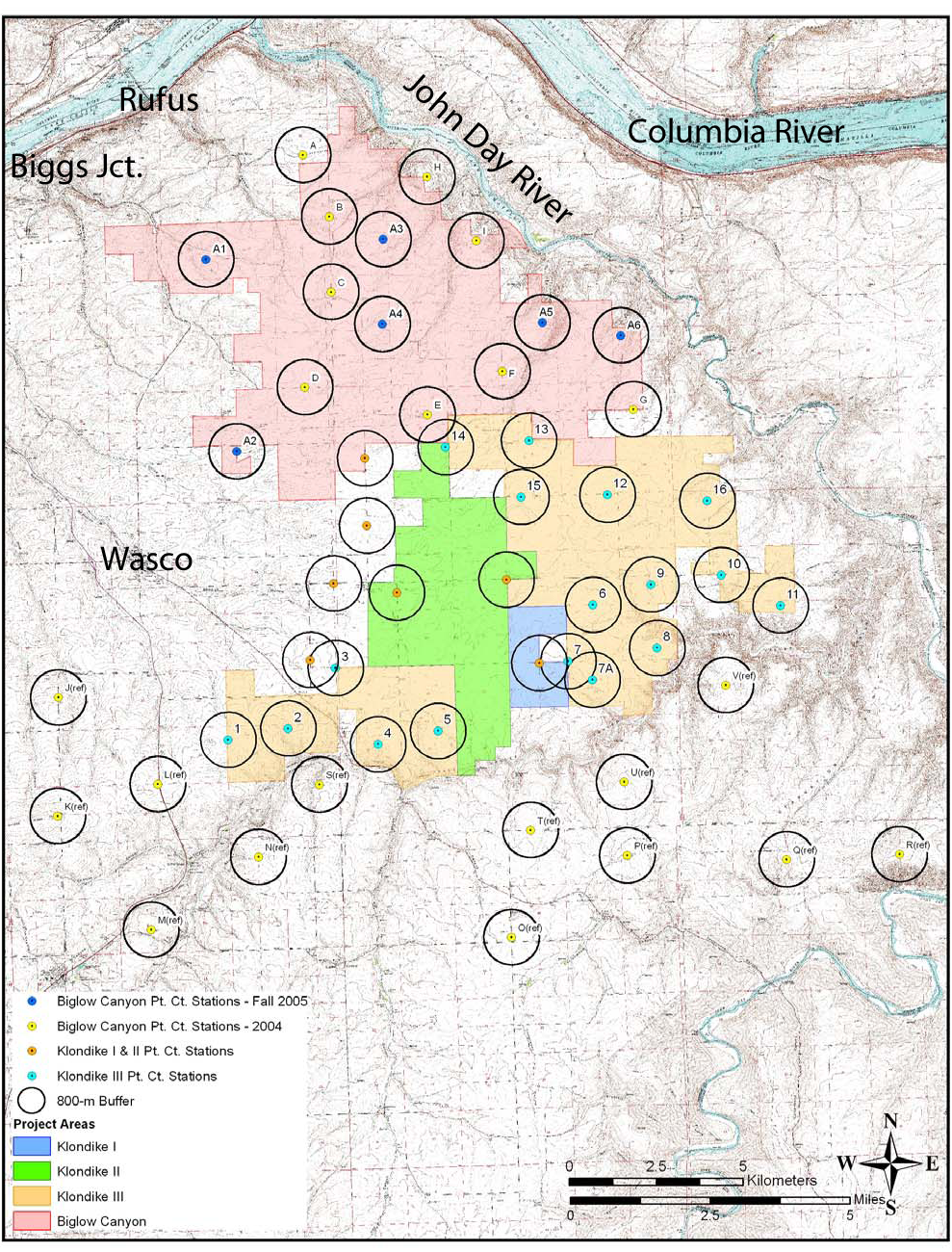 Environmental Impact Statement: Cumulative Impacts Analysis, Proposed Wind Projects, Sherman County, Washington [sic]